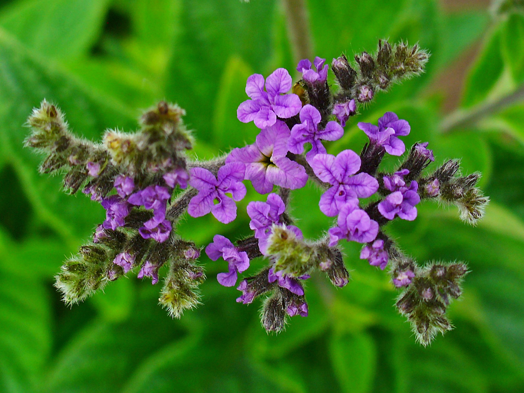 Heliotropium arborescens, Boraginaceae, Cherry Pie, Common Heliotrope, inflorescence. The plant is used in homeopathy as remedy: Heliotropium peruvianum (Helio.)